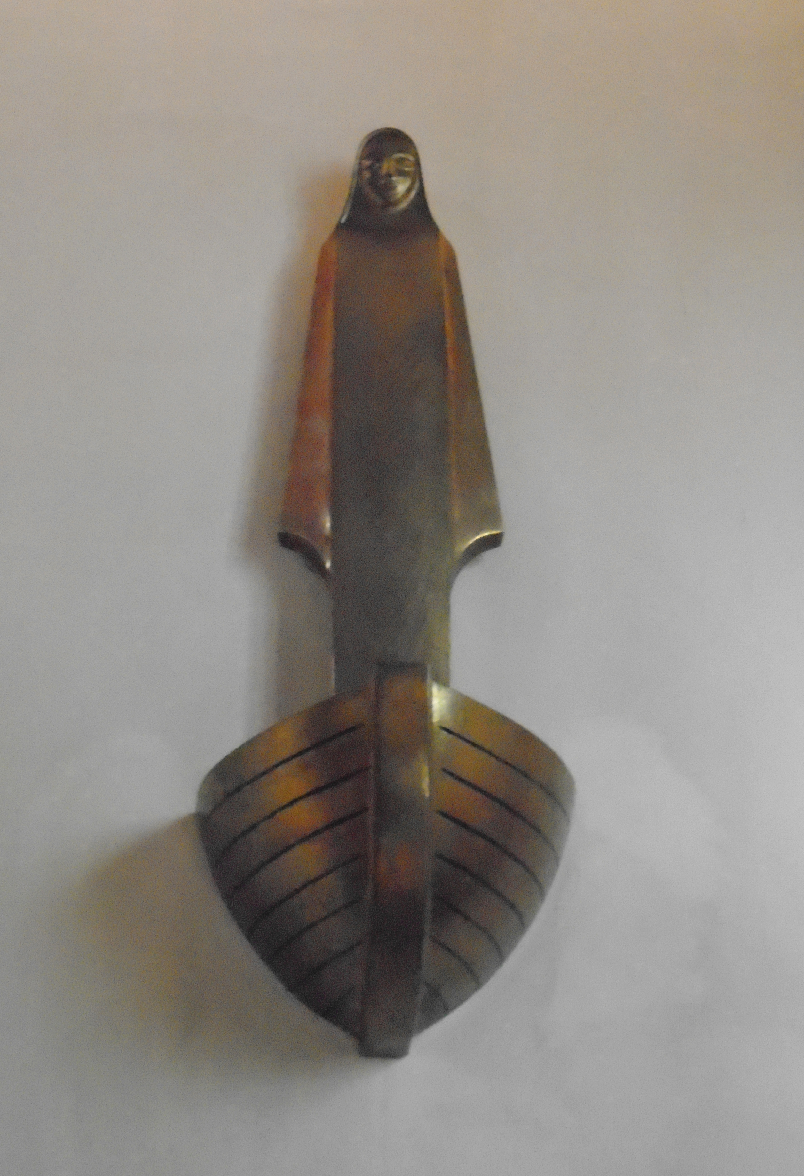 Bronze statute of the Virgin Mary in the prow of a boat, by Arthur Dooley Arthur Dooley (1929–1994) DescriptionBritish artist and sculptorDate of birth/death 17 January 1929 7 January 1994 Location of birth/death Liverpool LiverpoolWork location Liverpool Authority control : Q4798485 VIAF: 96690876 ULAN: 500193103 RKD: 268659 creator QS:P170,Q4798485